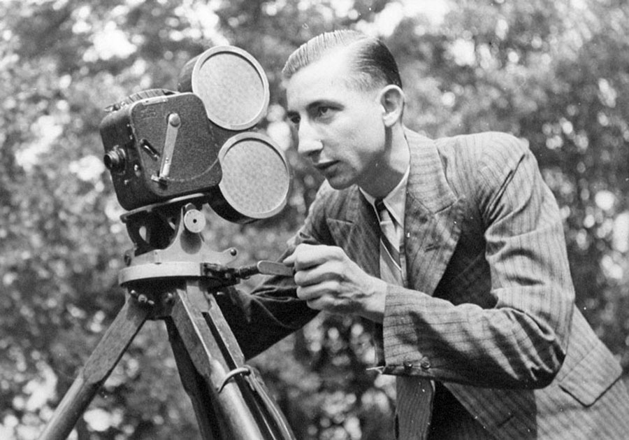 Paul Ruckert Australian Film Producer Cinemaphotographer Invincible Pictures